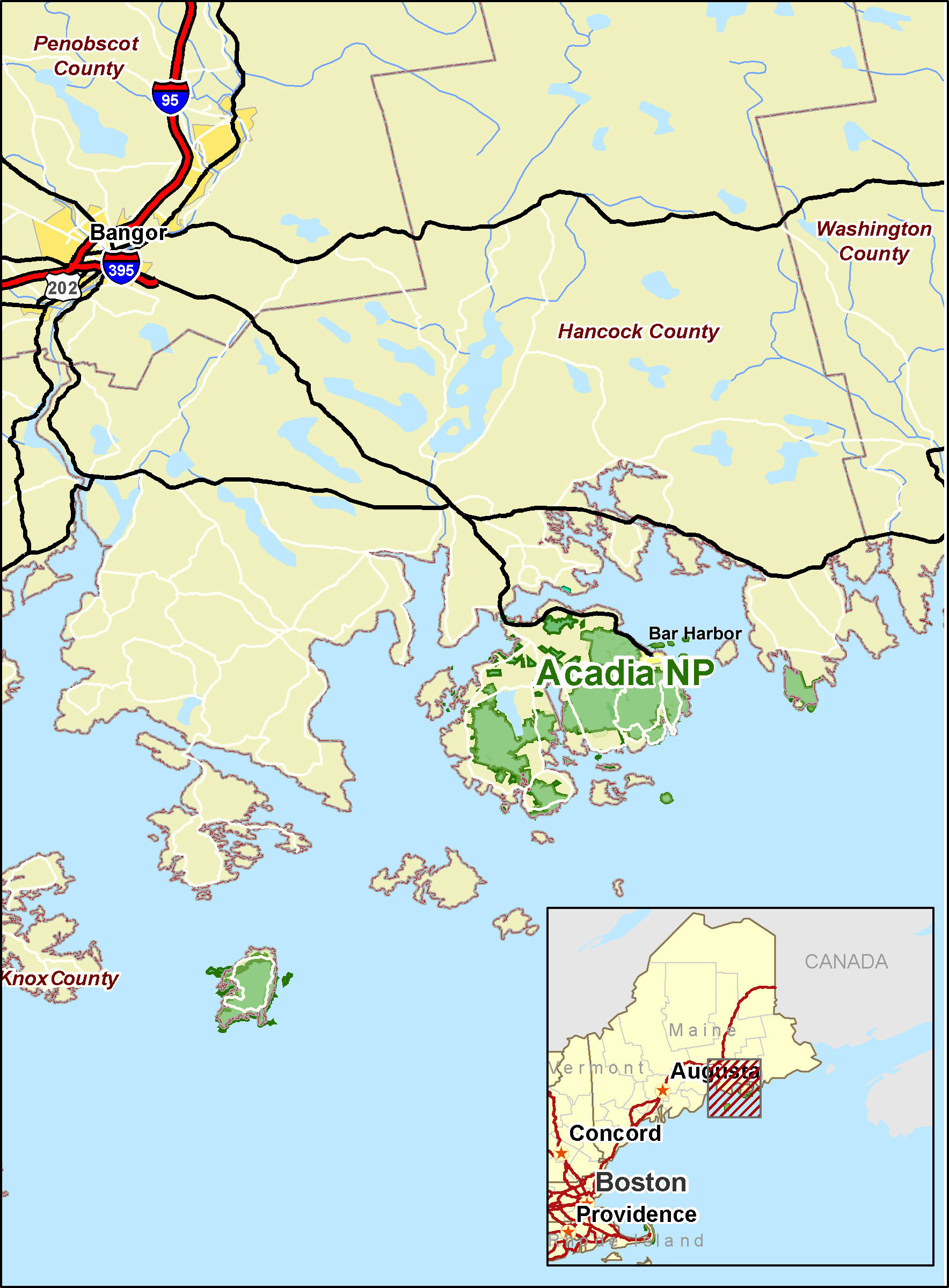 Acadian National Park (Maine) regional-scale map. Created by Kmf164.